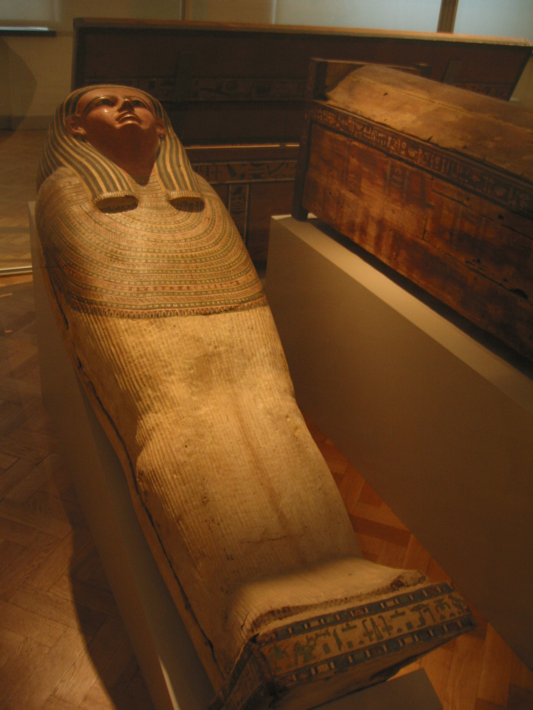 Object in the Ägyptisches Museum Berlin (Egyptian museum, building of the New Museum), Berlin.